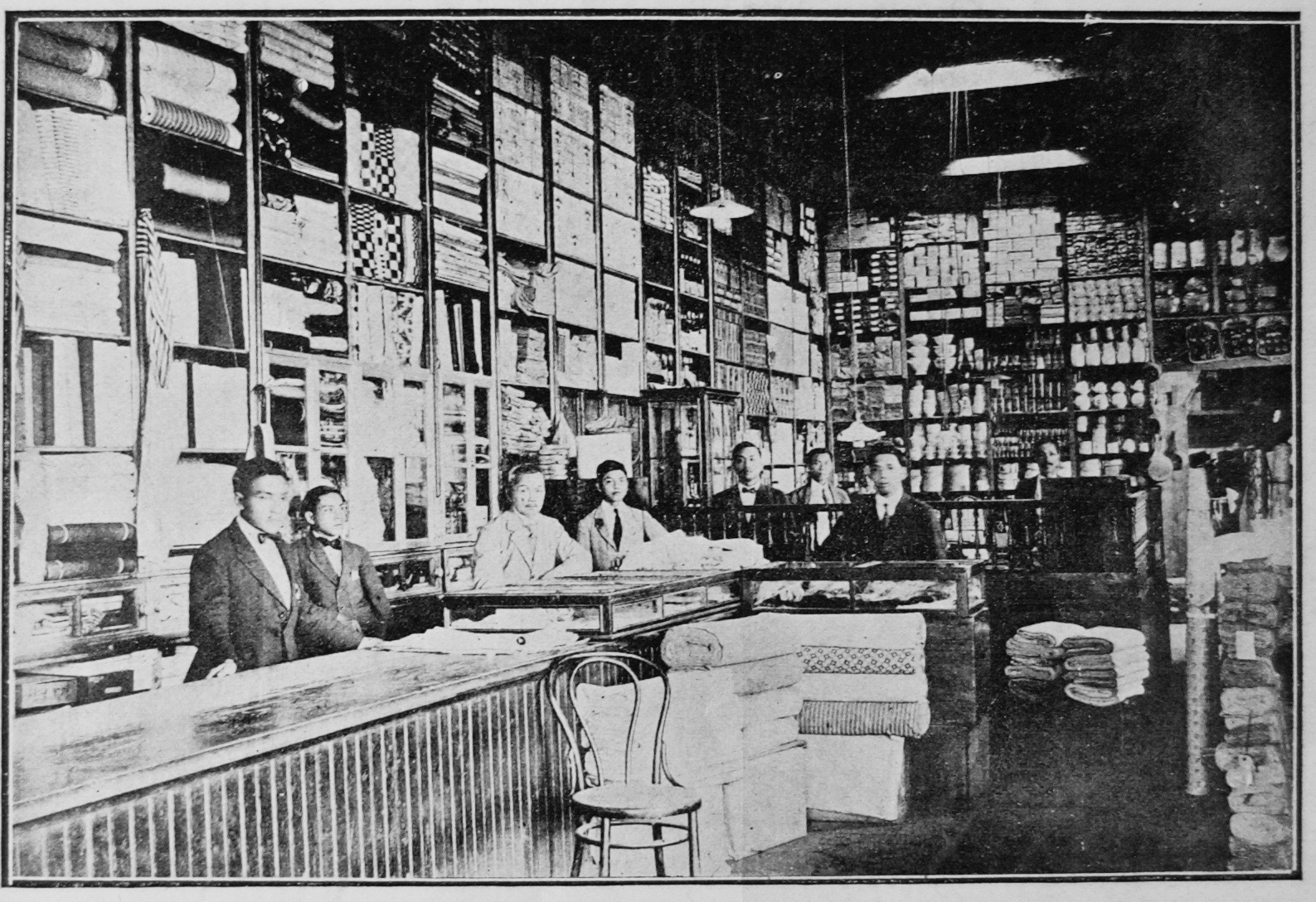 Wing Yuen Hing, la mas antigua firma comercial china en Ica, Peru